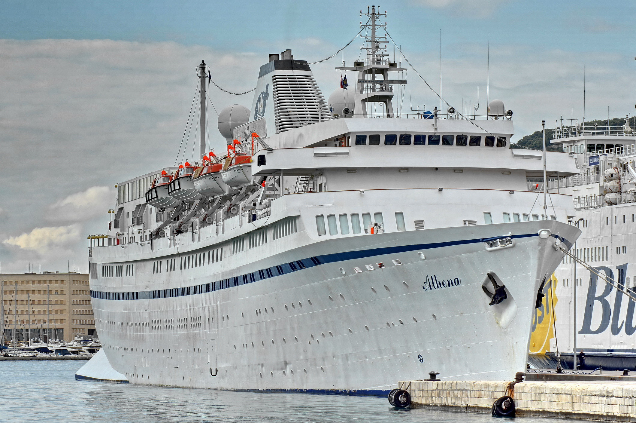 Athena (ship, 1948) IMO 5383304; in Split, 2011-10-22